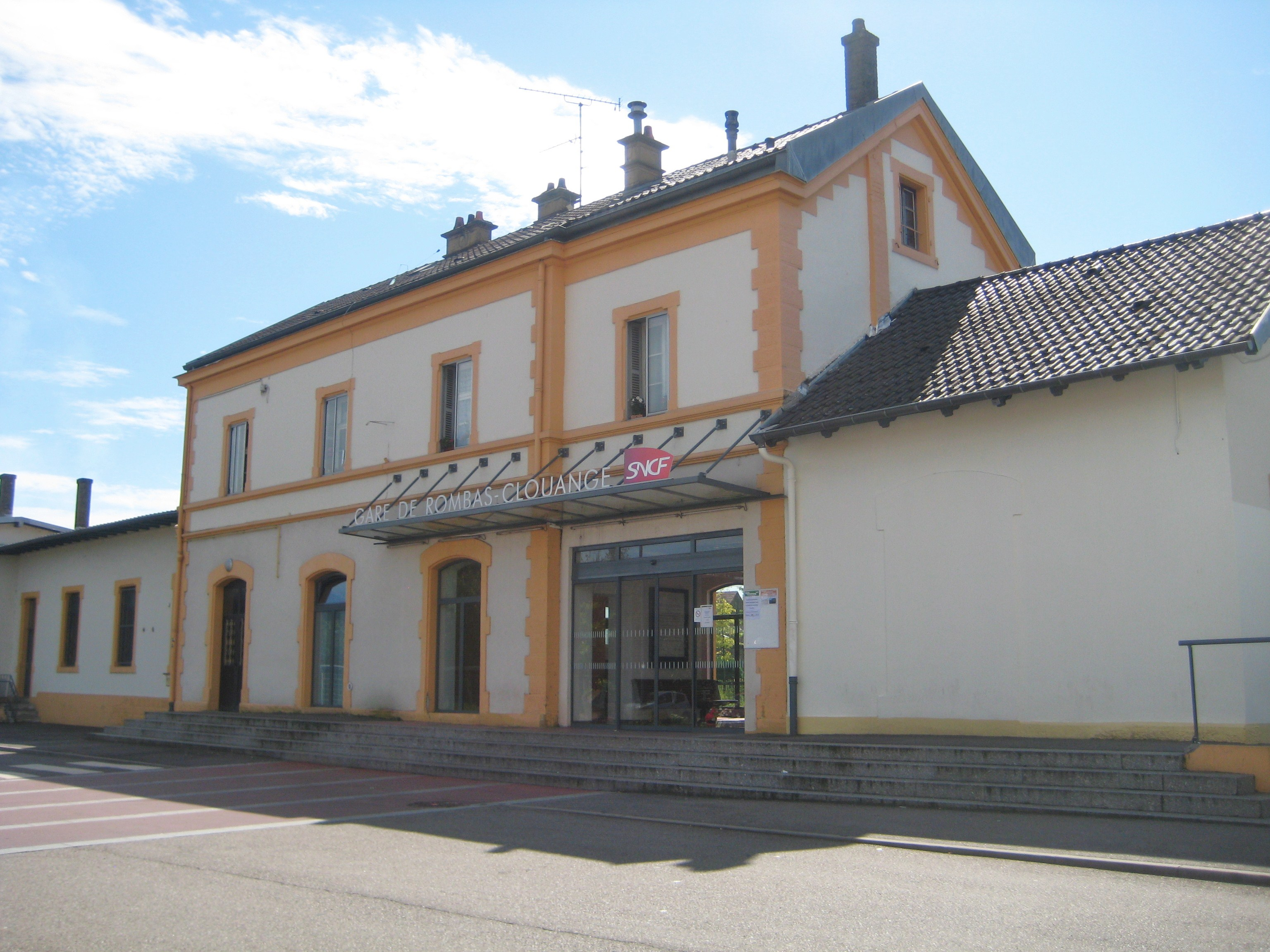 Description gare Rombas Date29 August 2011Sourcemon appareil photoAuthorAimelaimePermission (Reusing this file) gare Rombas